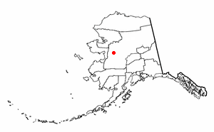 Adapted from Wikipedia's AK borough maps by Seth Ilys.